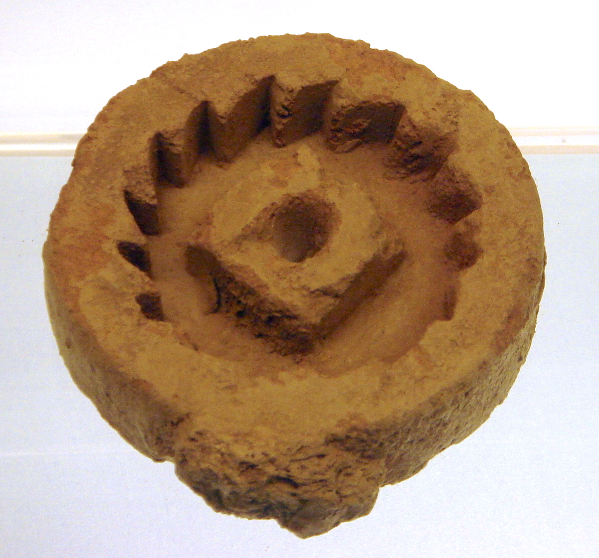 Mold for bronze gear. China, Han Dynasty. (206 B.C. — 220 A.D.)